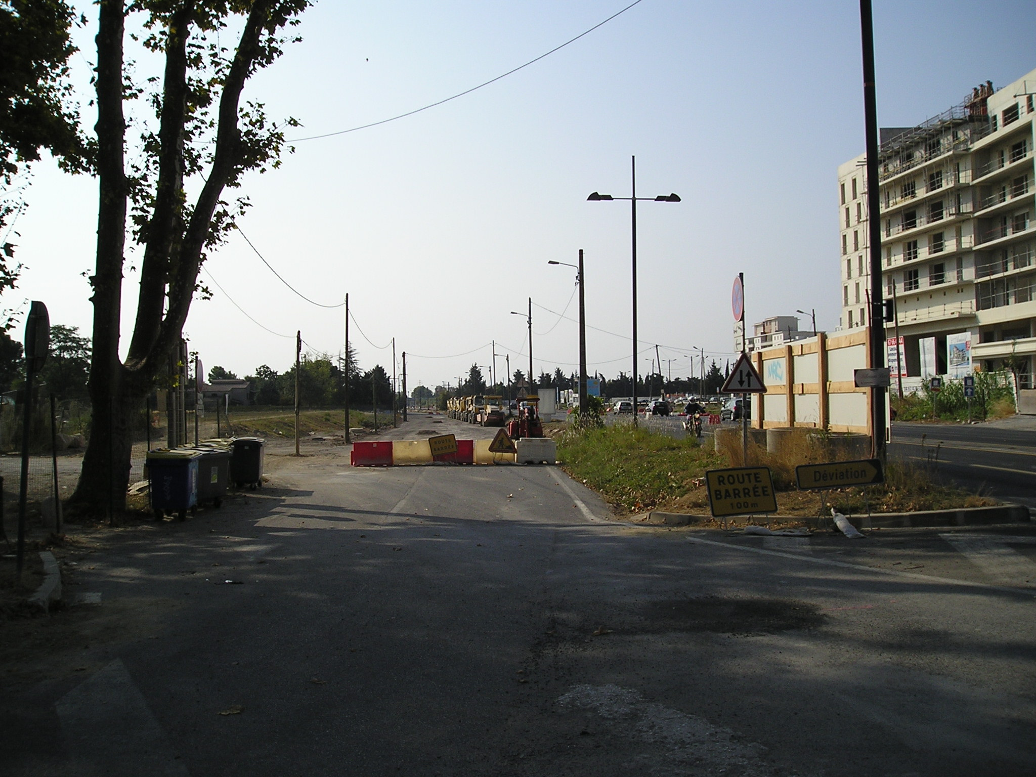 Montpellier, France. Raymond-Dugrand Avenue (formerly Mer Avenue or Carnon Road) during the construction of tramway line 3 and urban extension.